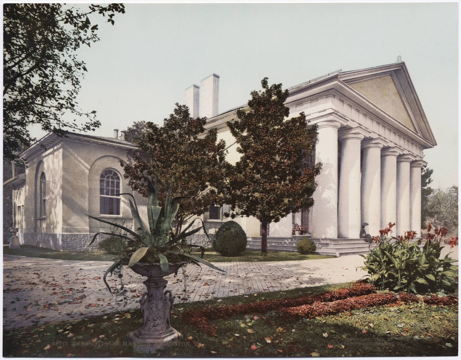 A photochrom postcard published by the Detroit Photographic Company.